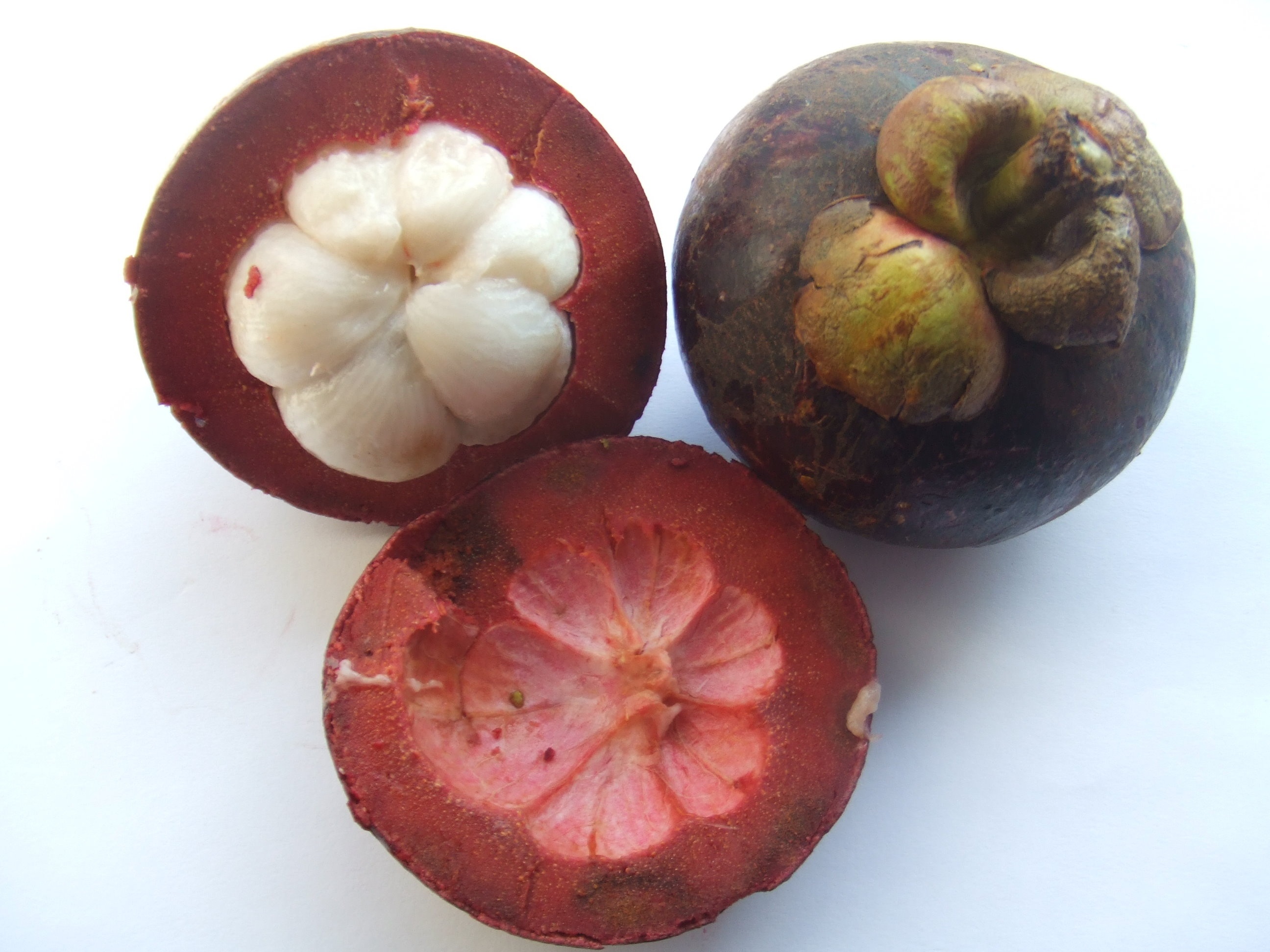 Garcinia mangostana, bought at a Chinese supermarket, West-Kruiskade, Rotterdam